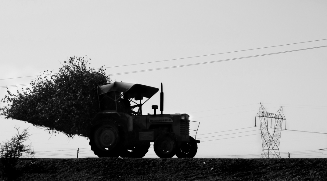 A tractor at cotton harvest, Gujarat, India